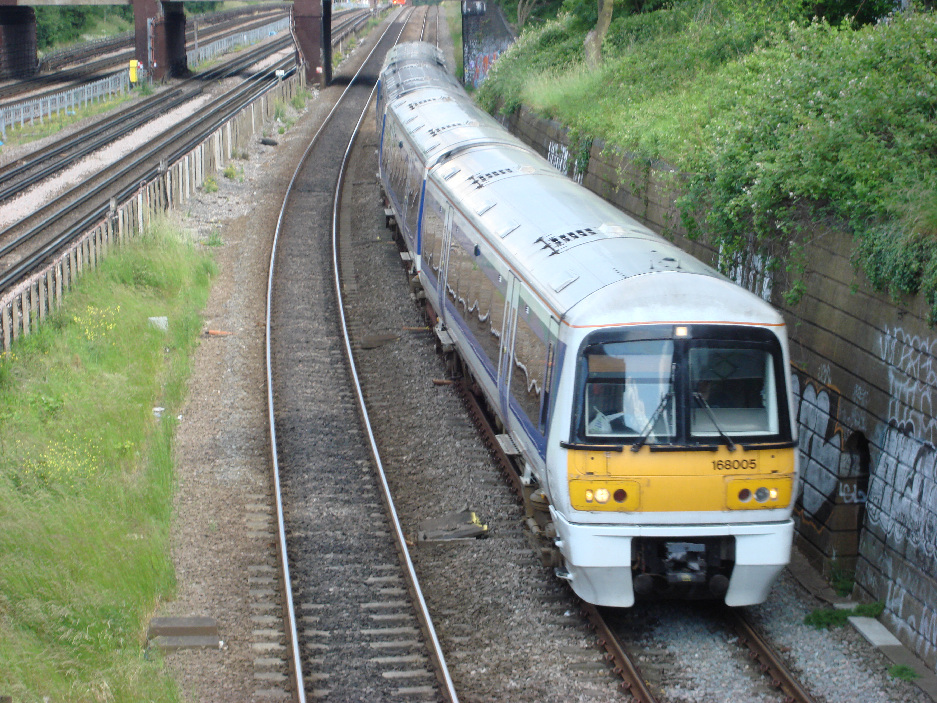 168005 about to pass Willesden Green tube station